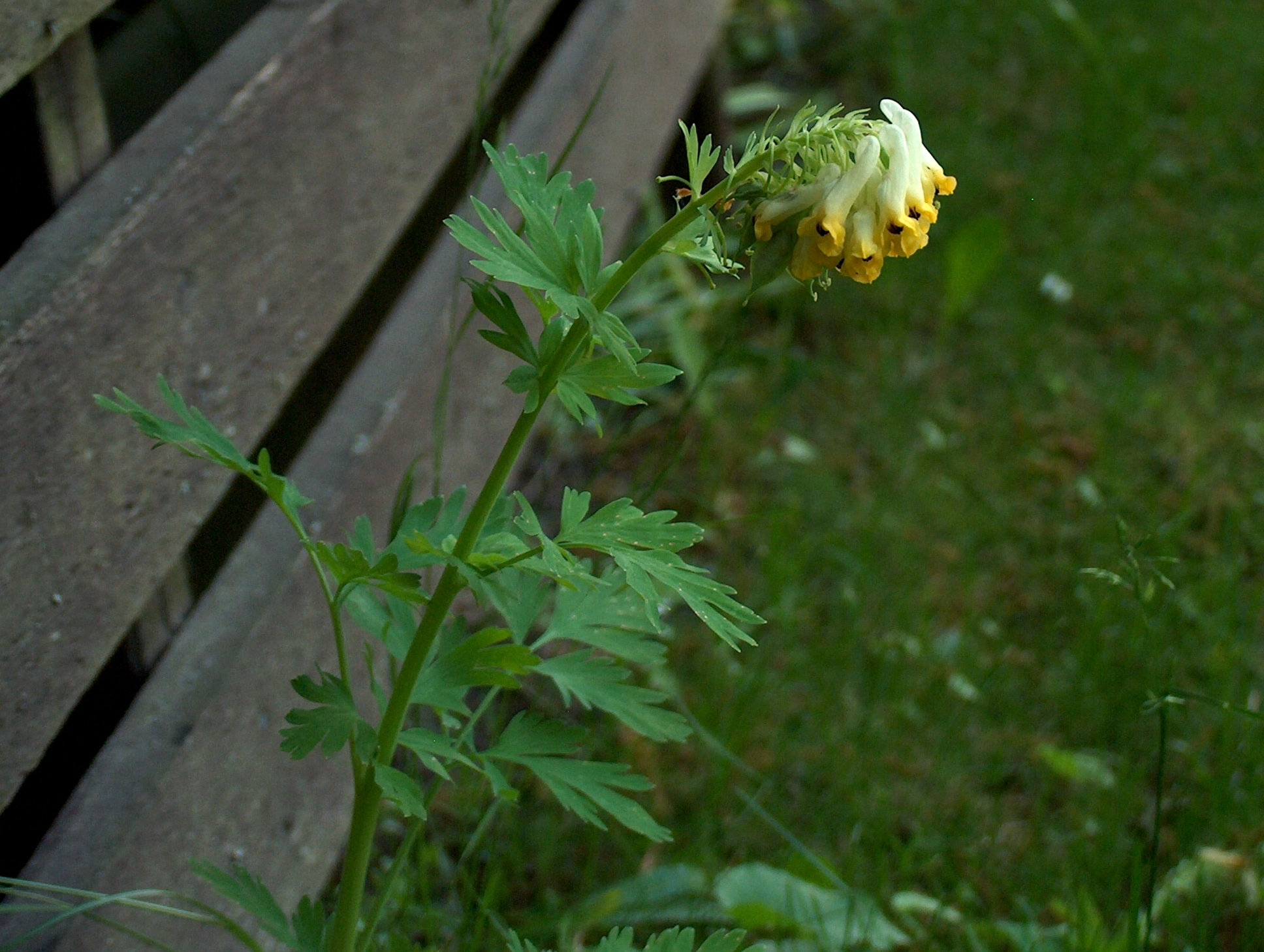 Corydalis nobilis - Kerava, Finland